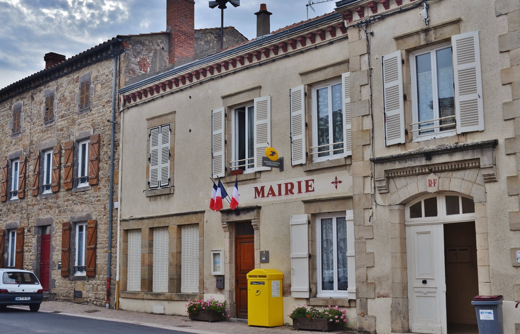 La Mairie